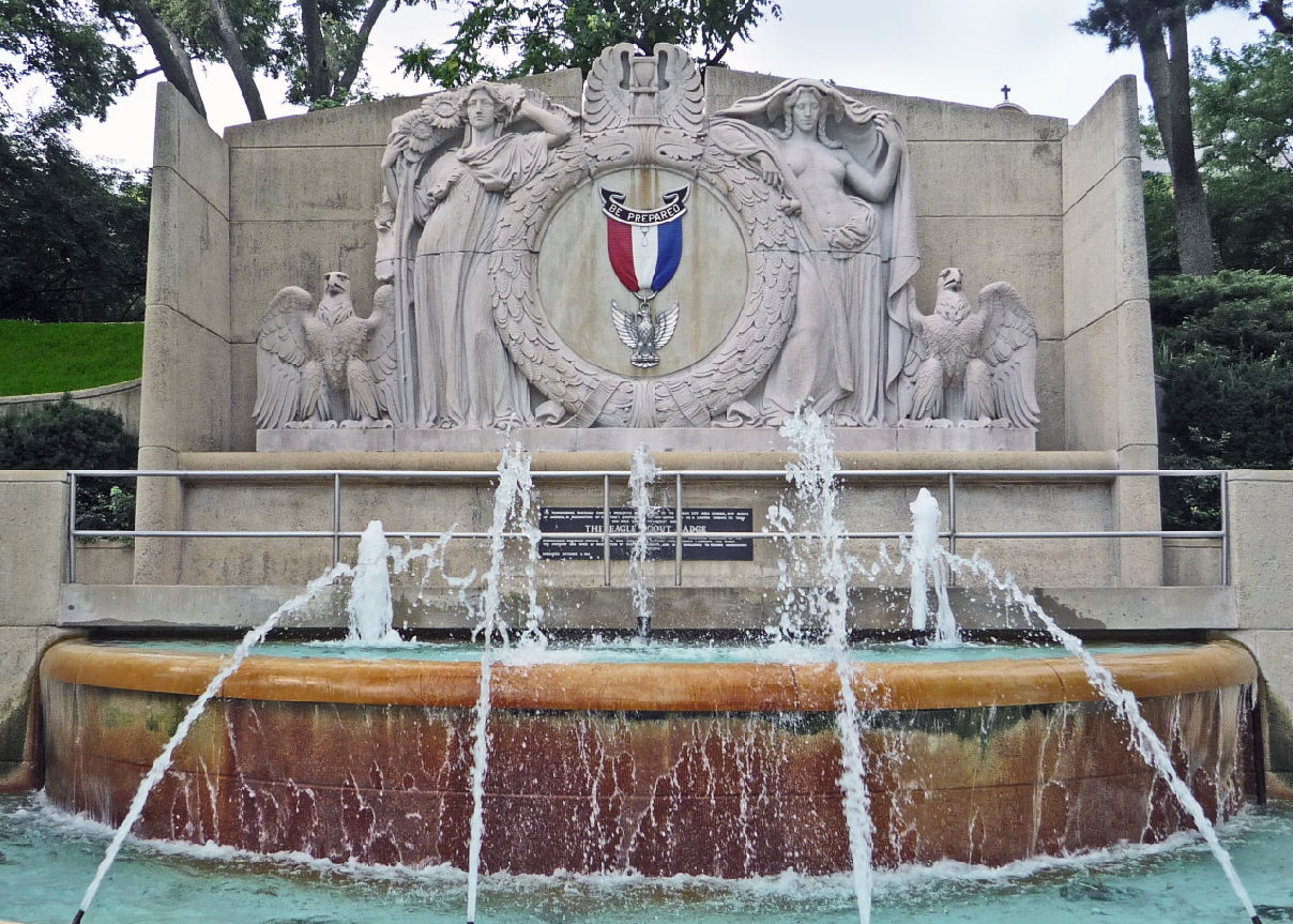 Eagle Scout Memorial Fountain, 39th Street at Gillham Road,Kansas City, Missouri, featuring the only remaining assembled example of the four "Day" and "Night" statue pairs by Adolph Weinman that once flanked clocks in New York City's original Penn Station (1910–1963).